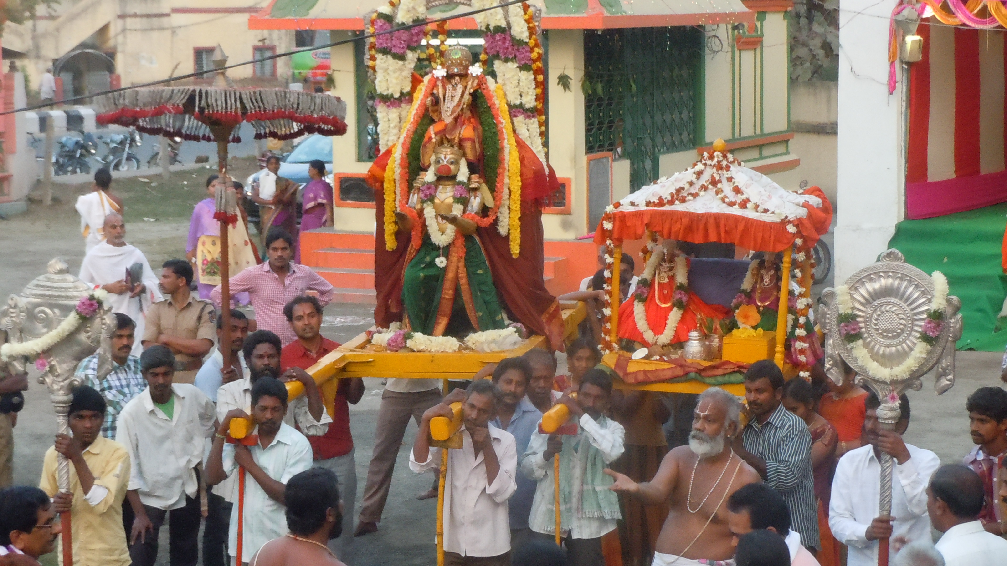 A Procession in streets at Bhadrachalam